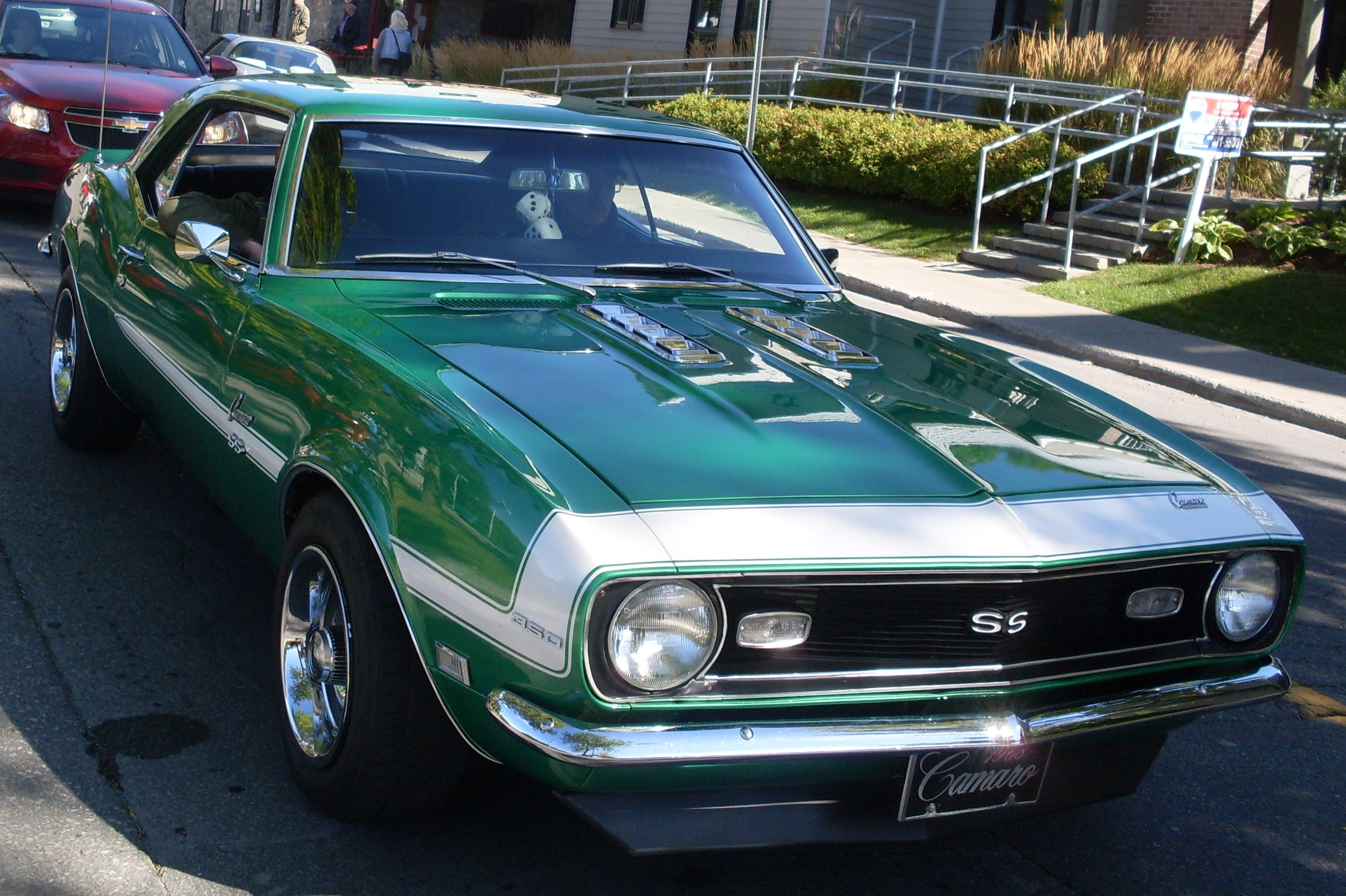 1968 Chevrolet Camaro photographed in Terrebonne, Quebec, Canada at Auto classique VACM Terrebonne.